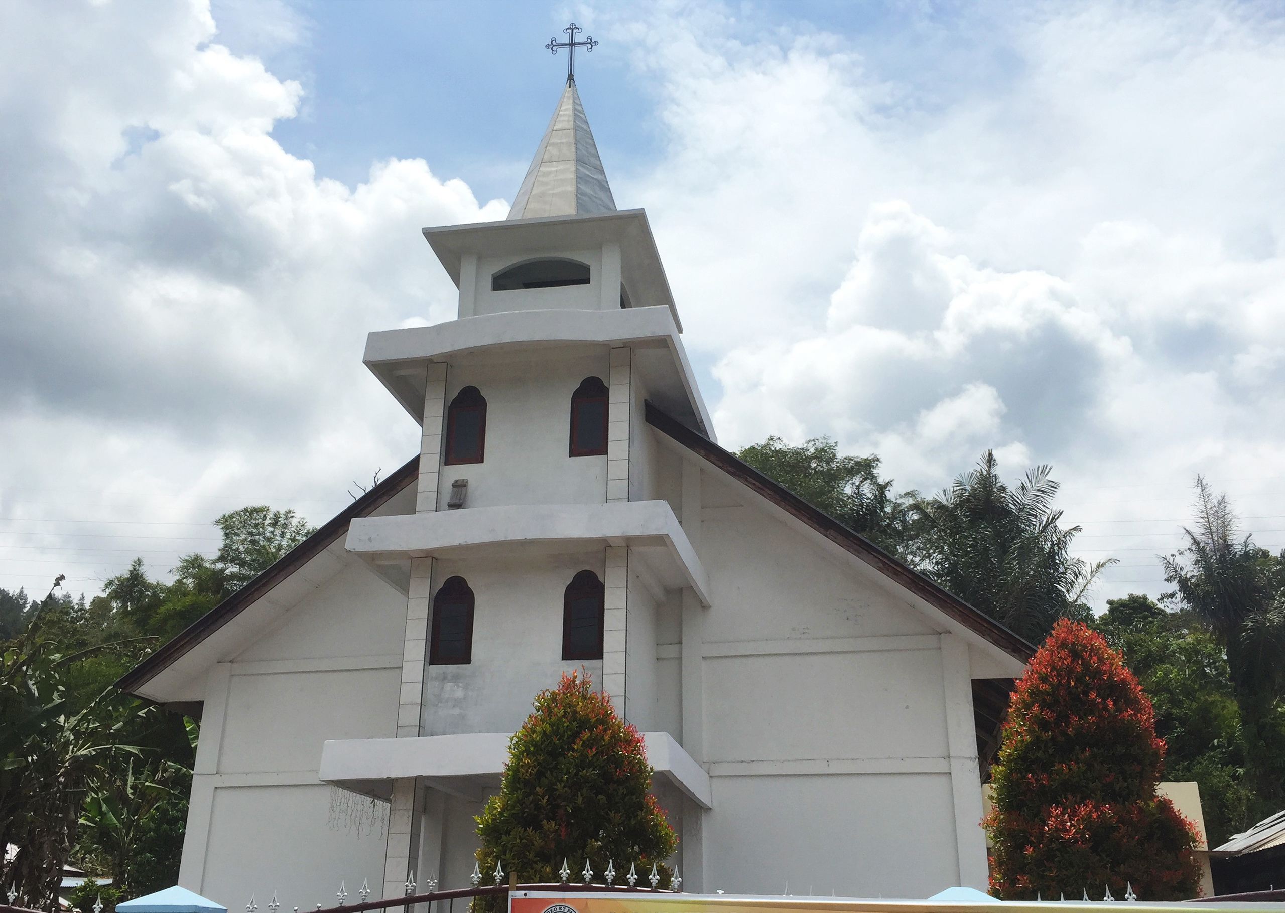 HKBP Partali Julu, Church in Partali Julu, Tarutung, North Tapanuli